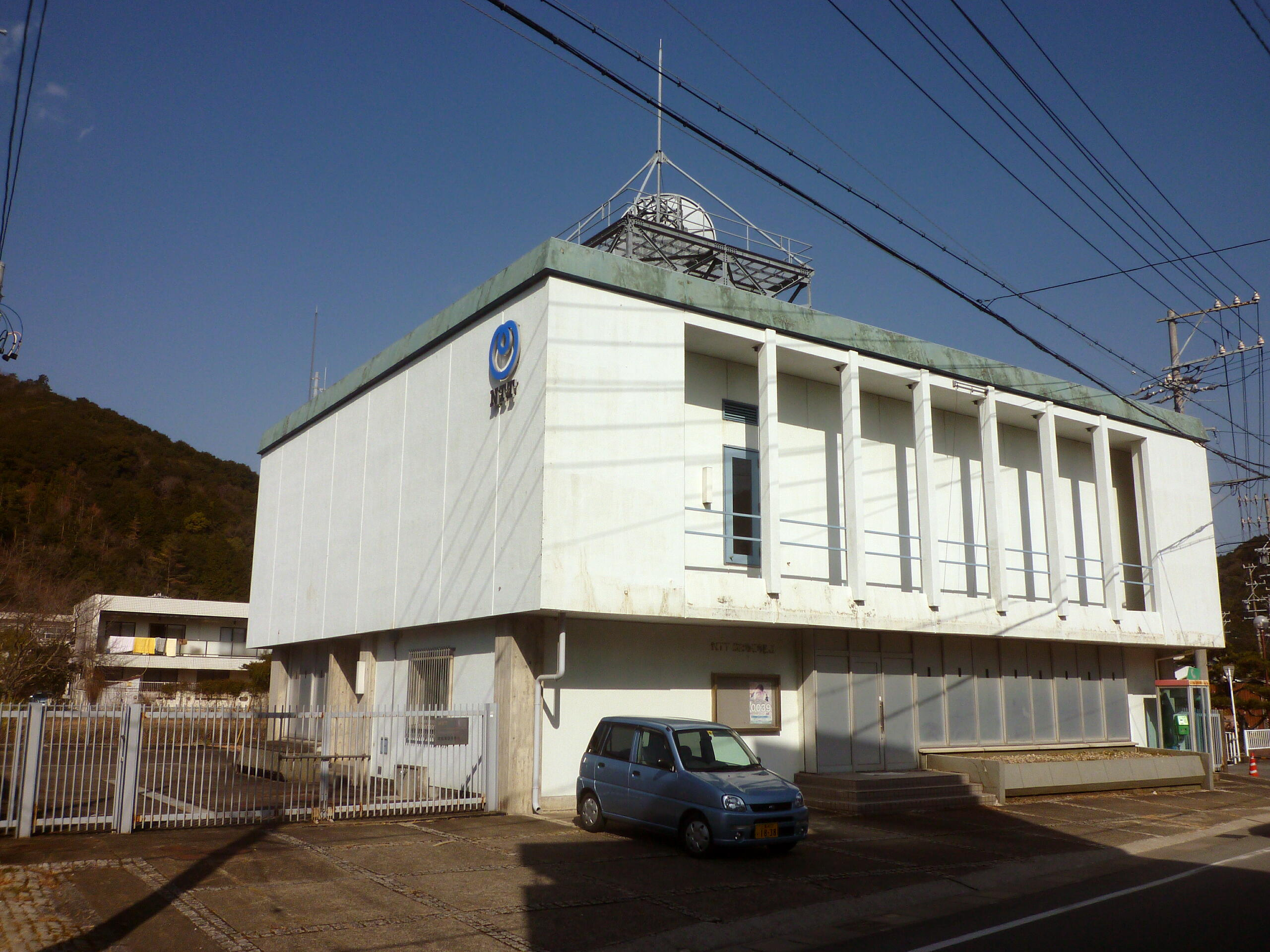 The "NTT Nantō Telephone Exchange Building" in Murayama, Minamiise Town, Watarai District, Mie Prefecture, Japan.